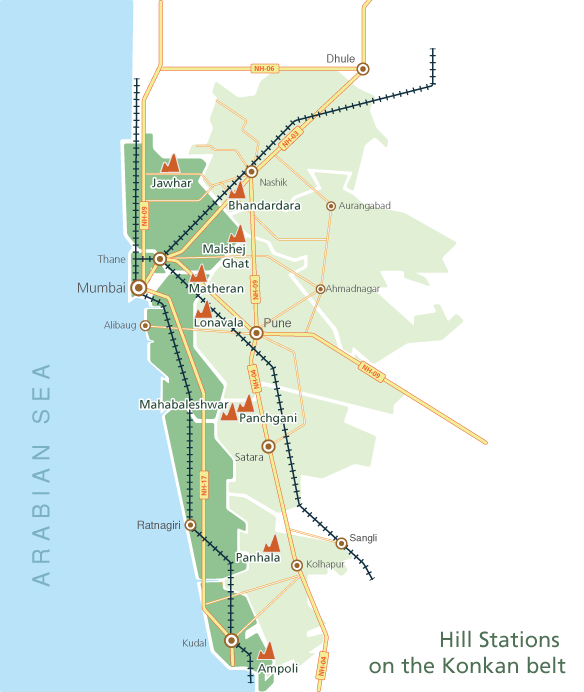 This is a schematic map of the Konkan belt (Maharashtra) with the hill stations plotted on it and how they are connected with roadways and railways.